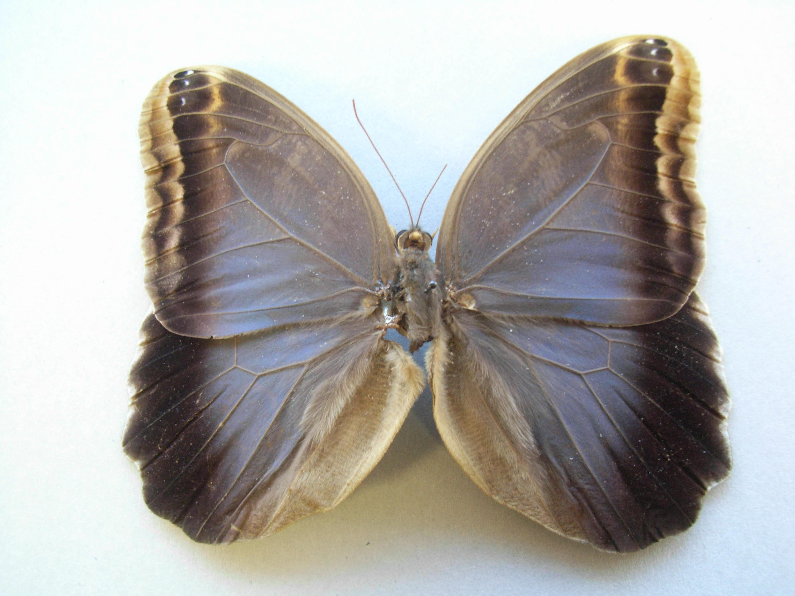 Caligo memnon:Morphinae:Nymphalidae